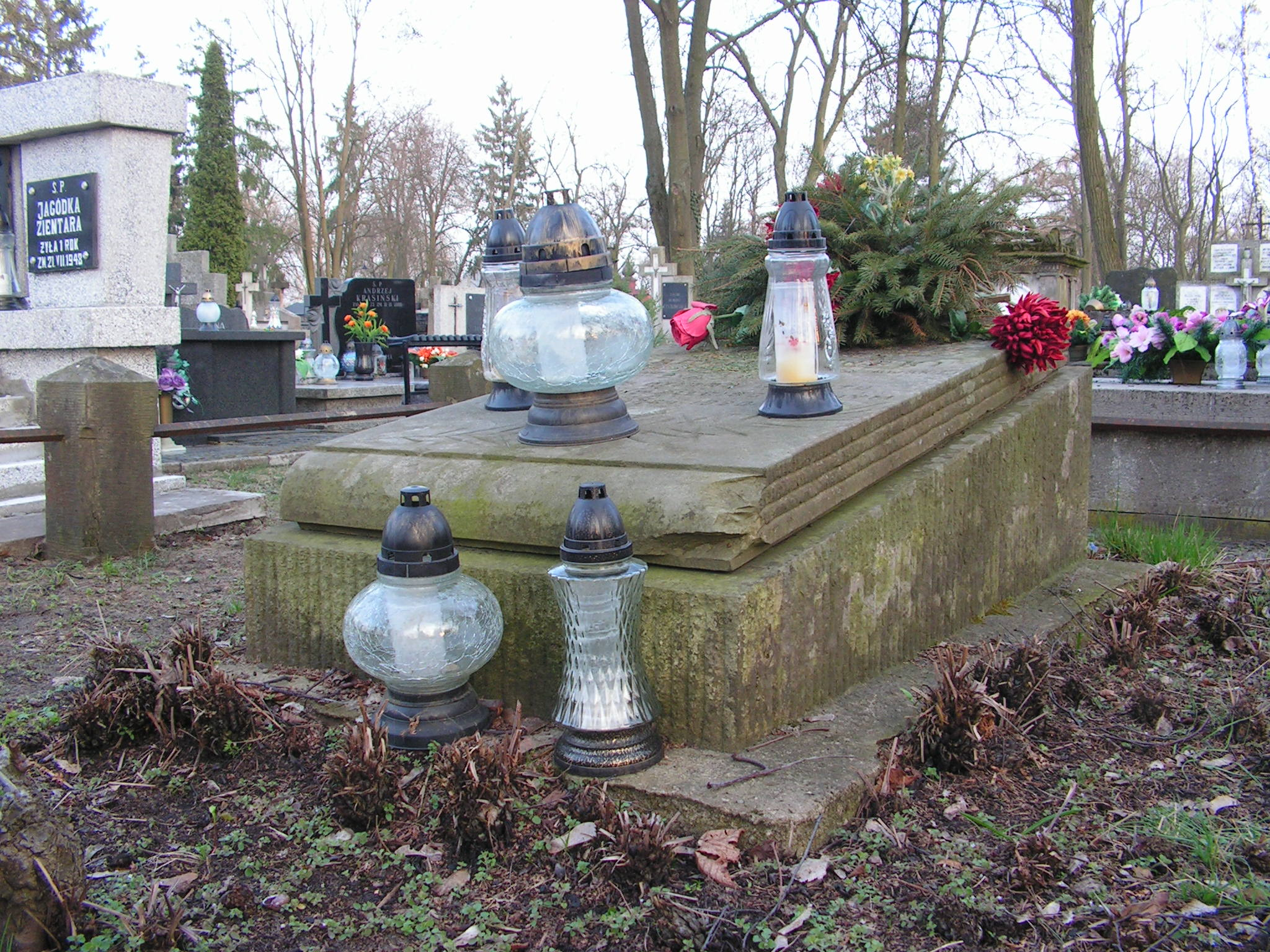 Grave of Jan Ulasiński (died at 16th of July 1920 in age of 21), student of Warsaw Technology University. Inscription on grave informs that he was "victim of rape on plebiscite area", which probably means that he was murdered becose of political motives. Information refers to plebiscite on Warmia and Masuria, which took place at 11th of July 1920. In this grave was also buried Jadwiga Ulasińska (15.12.1891-31.03.1957), but there is no information about it on grave's plate.